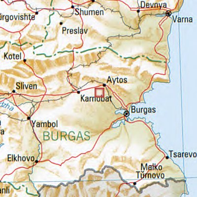 Bulgaria 1994 CIA map, city: part of the map Bulgaria_1994_CIA_map.jpg This image is in the public domain because it contains materials that originally came from the United States Central Intelligence Agency's World Factbook.